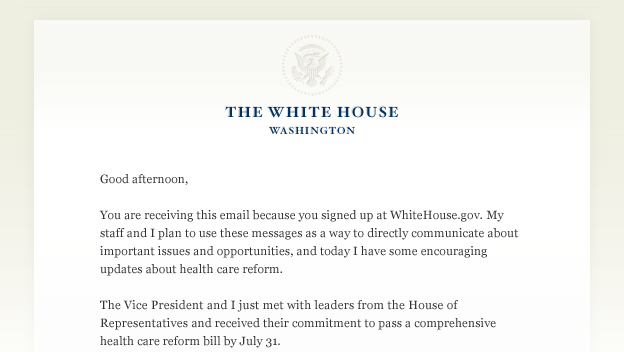 Part of the first email sent by President Barack Obama to those who had signed up for updates at . The email addresses health care reform.